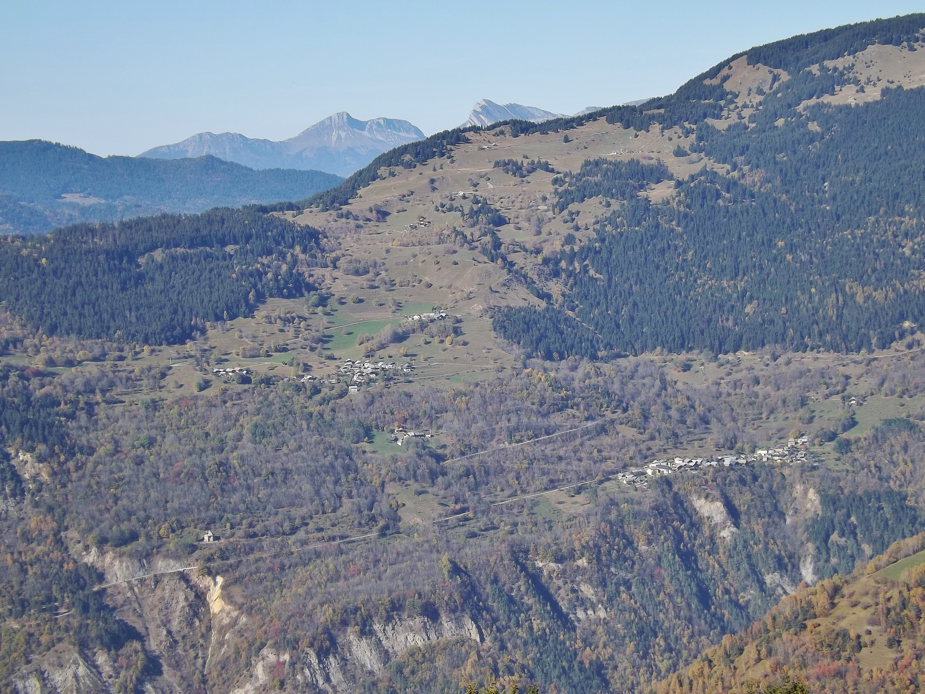 Sight, from the pointe de l'Armélaz peak on the heights of Montpascal, on the French commune of Montgellafrey on the Lauzière mountains, in Savoie.